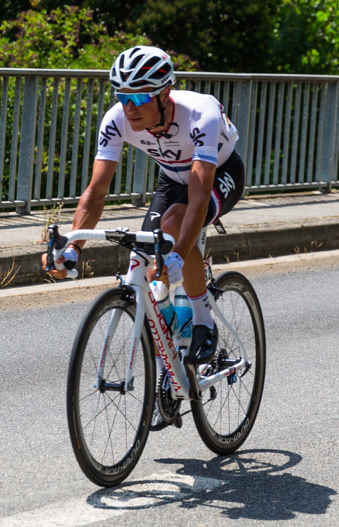 Peter Kennaugh (SKY) during stage 13.